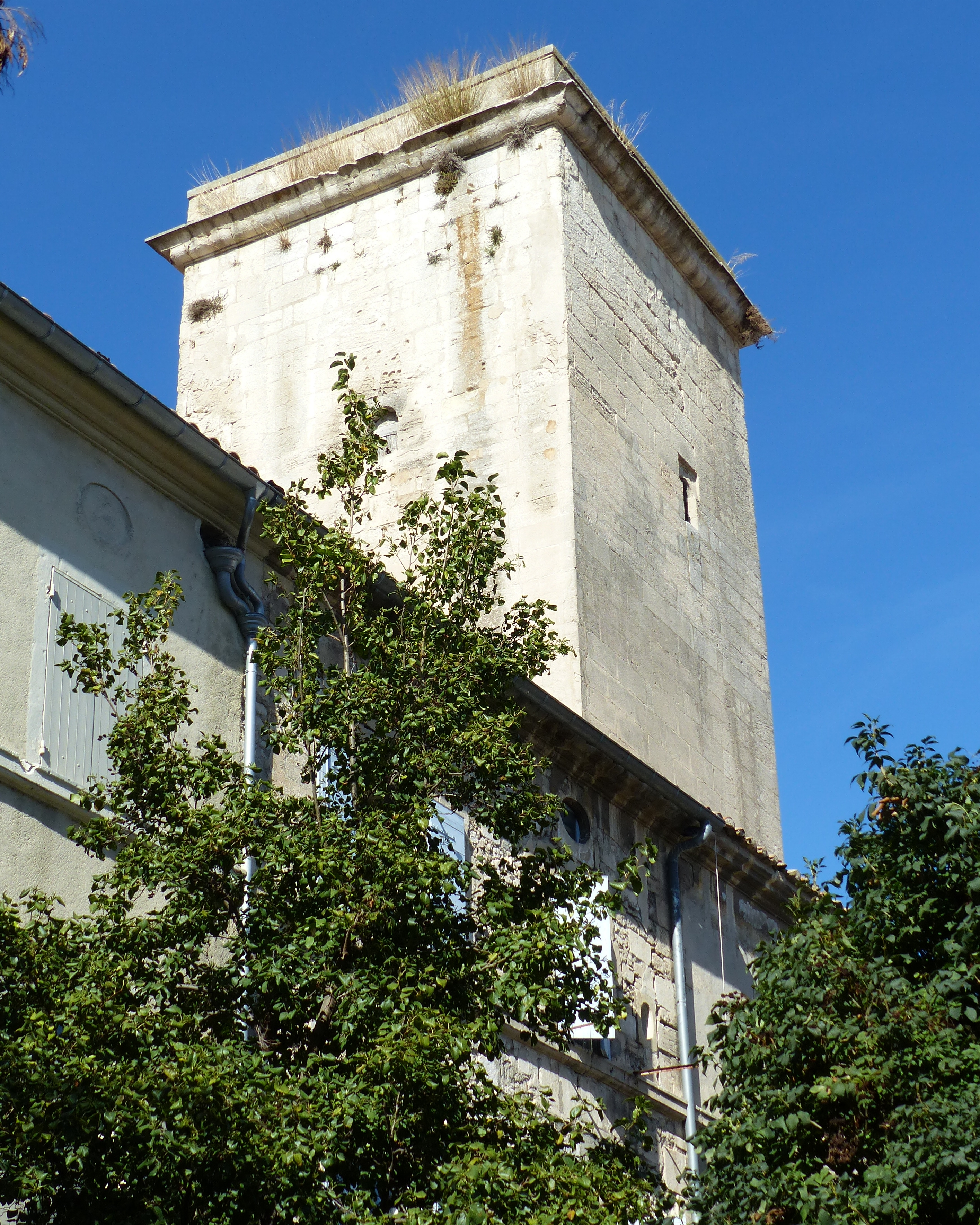 Arles (Bouches-du-Rhone, Provence, France), in the heart of the Roquette district, former Sainte-Croix church, now desecrated; the oldest parts of which date from the twelfth century as a priory under the Saint-Trophime cathedral ; at the 13th century church of the largest of the two parishes of the district of Vieux Bourg, current Roquette; the facade was redone in 1720. Thereafter the building was flanked by houses.